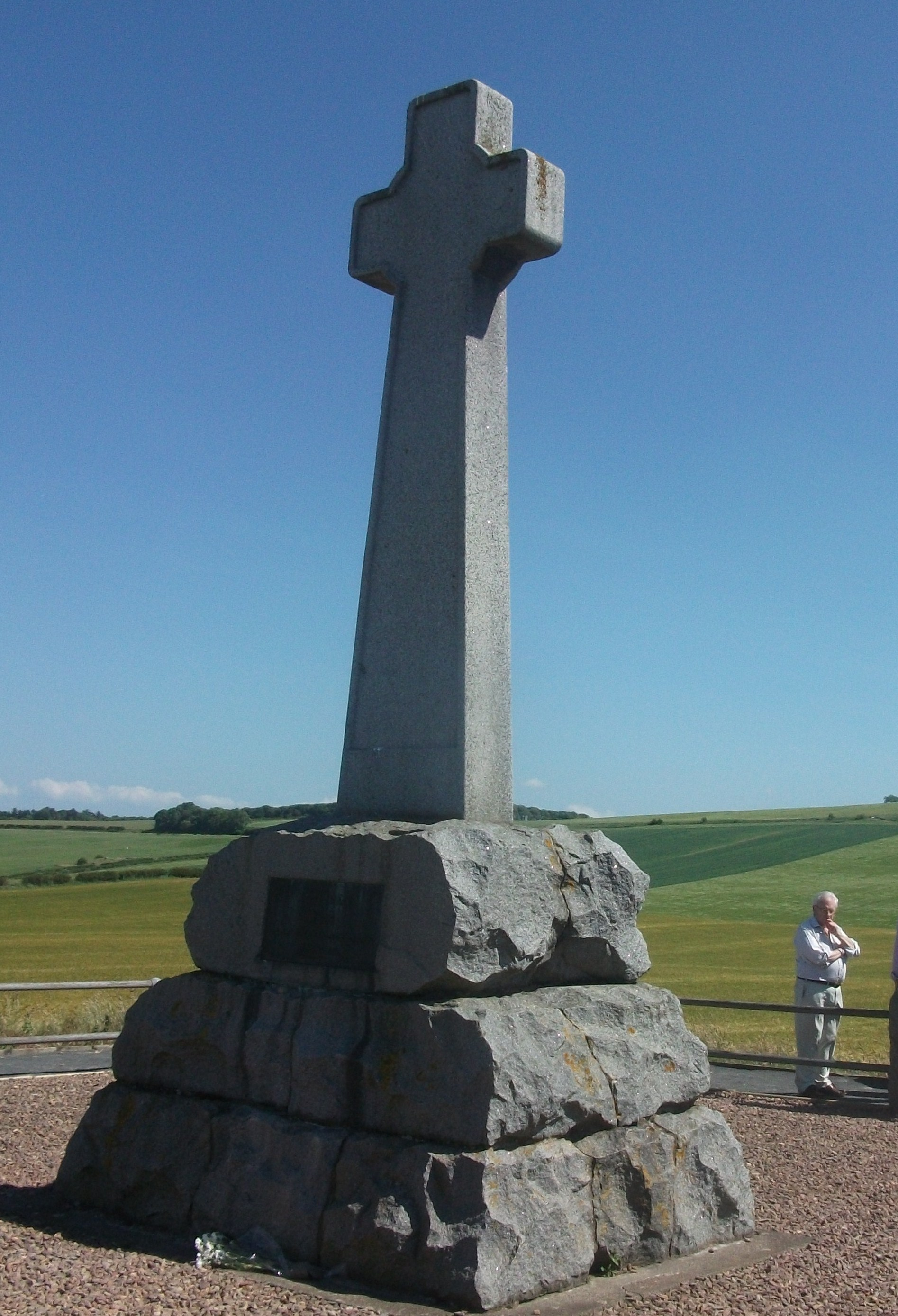 Flodden memorial, erected in 1910 to commemmorate the Battle of Flodden in 1513, contemplated by Dr David Starkey on 6 July 2013